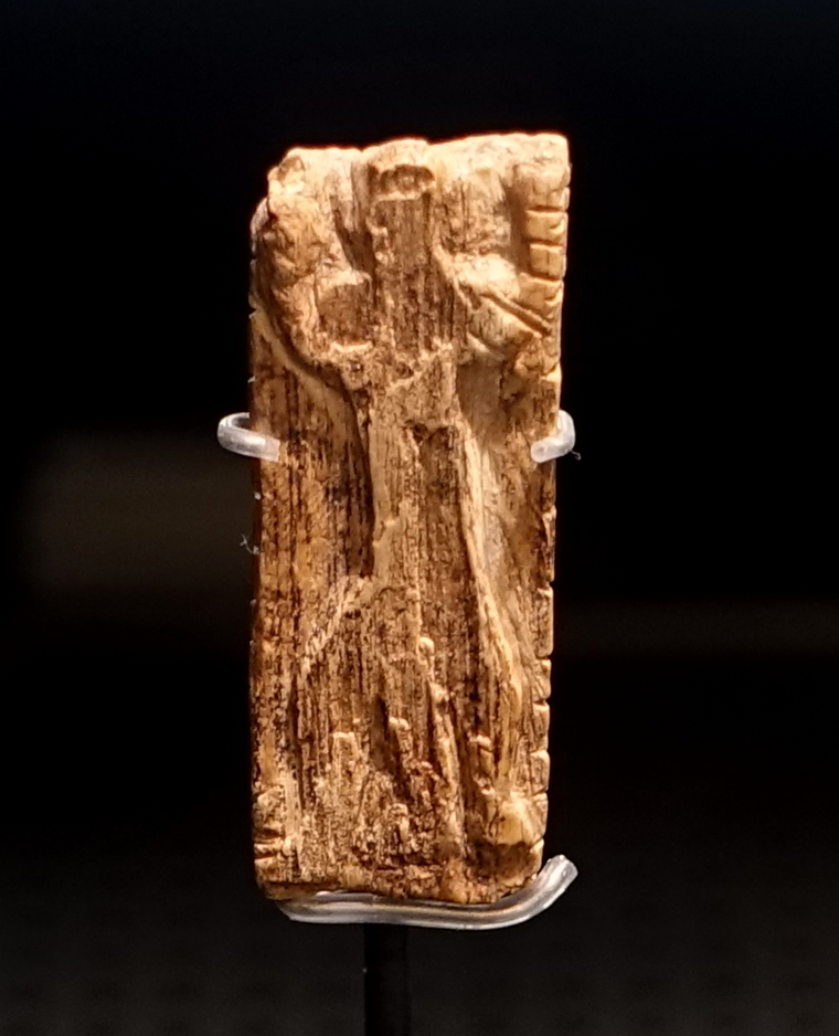 Adorant, Geisenklösterle, Blaubeuren-Weiler, Alb-Donau-Kreis, Aurignacian culture, 35,000 to 45,000 years old, ivory - Landesmuseum Württemberg - Stuttgart, Germany.